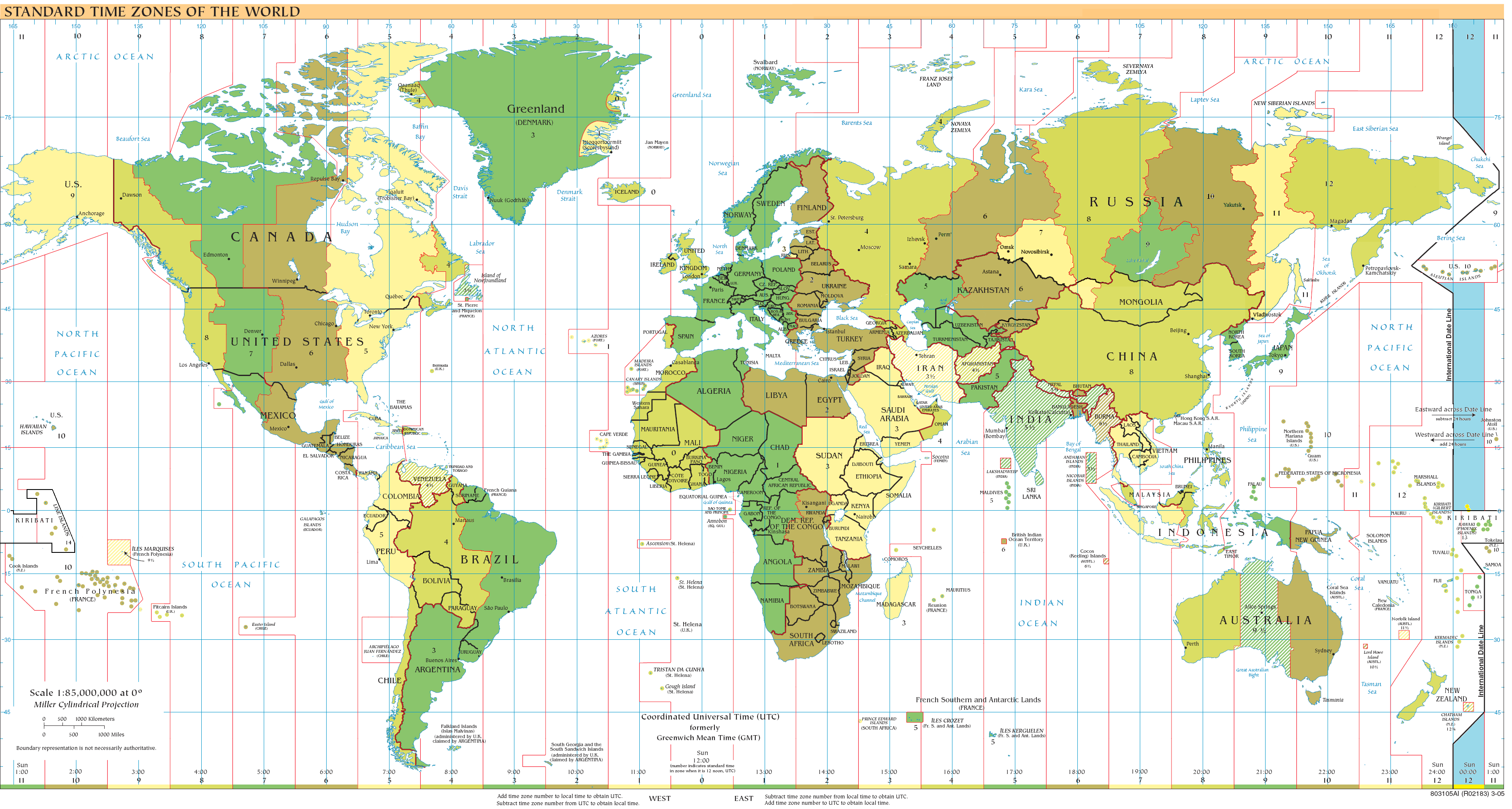 Copy of Timezones2008.png Edited to highlight UTC-12 Light Blue - UTC-12 Sea Area